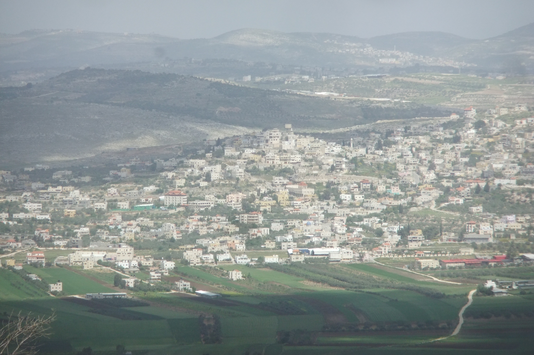 Ajjah as viewed from Chomesh in the south